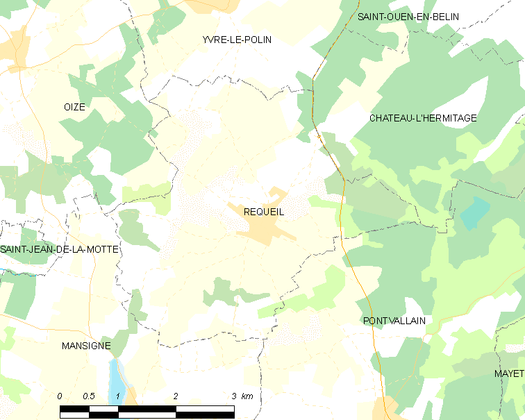 Map of French municipality